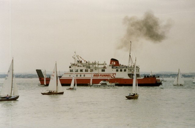 The Red Funnel Ferry weaving its way between the yachts